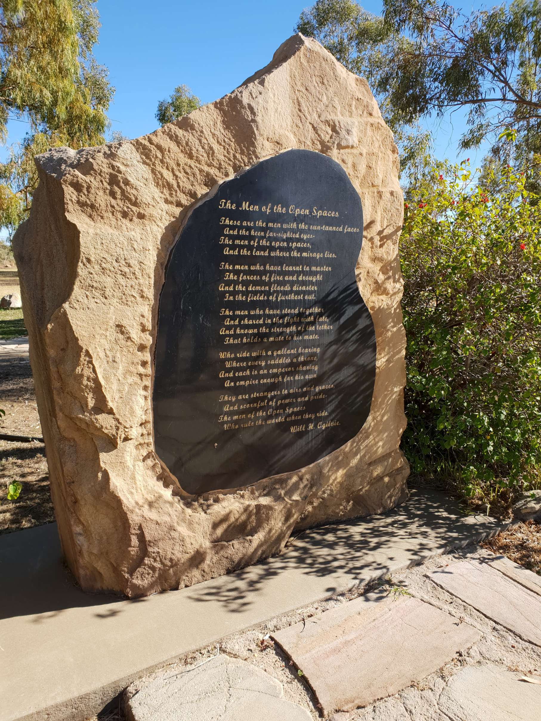 Will H. OGILVIE's poem 'The men of the open spaces', at the Longreach Stockman's Hall of Fame, Longreach, Queensland, Australia. Poem is inscribed on a tablet attached to a large stone. Taken in June 2018.